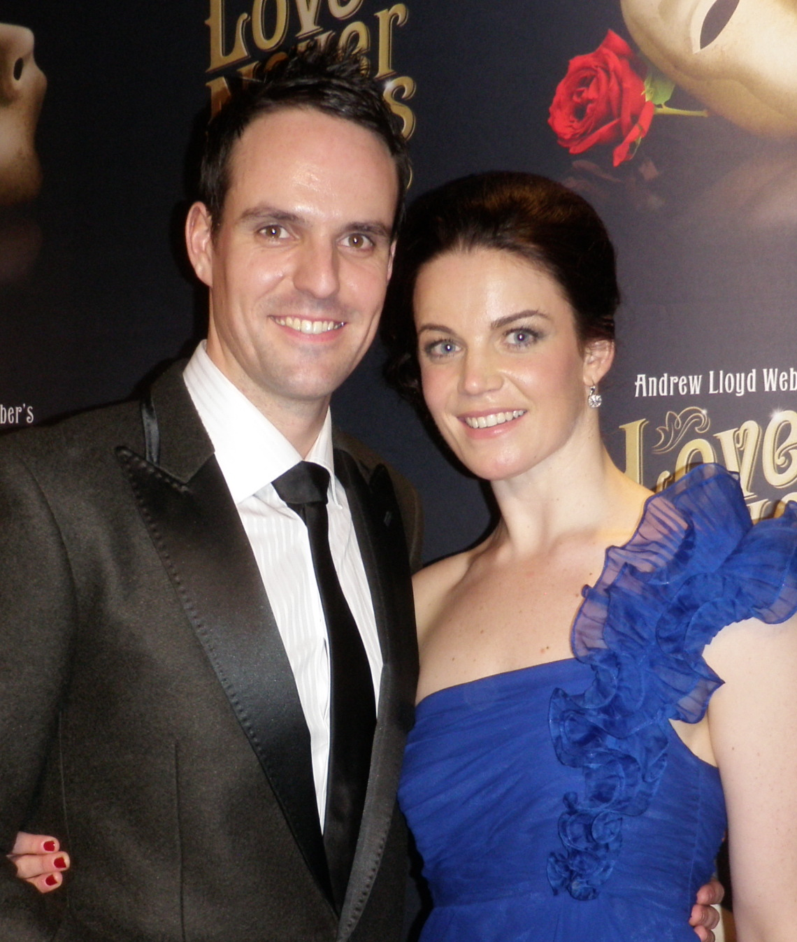 Ben Lewis and wife Melle Stewart